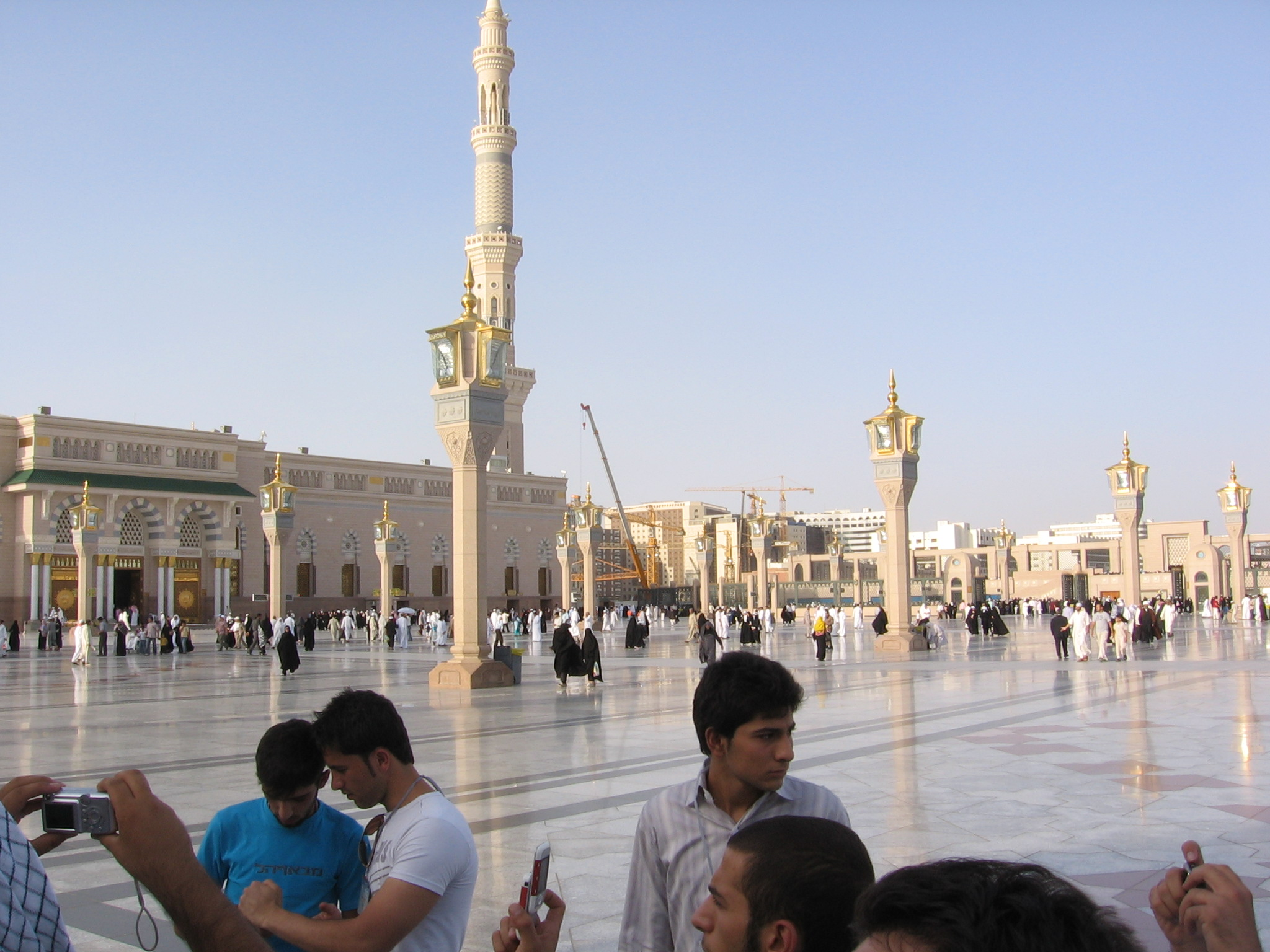 Al-Masjid al-Nabawi in Medina Saudi Arabia